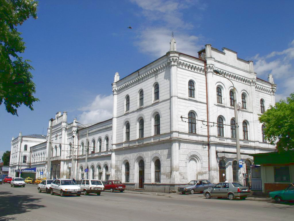 Suceava North (Iţcani) train station.